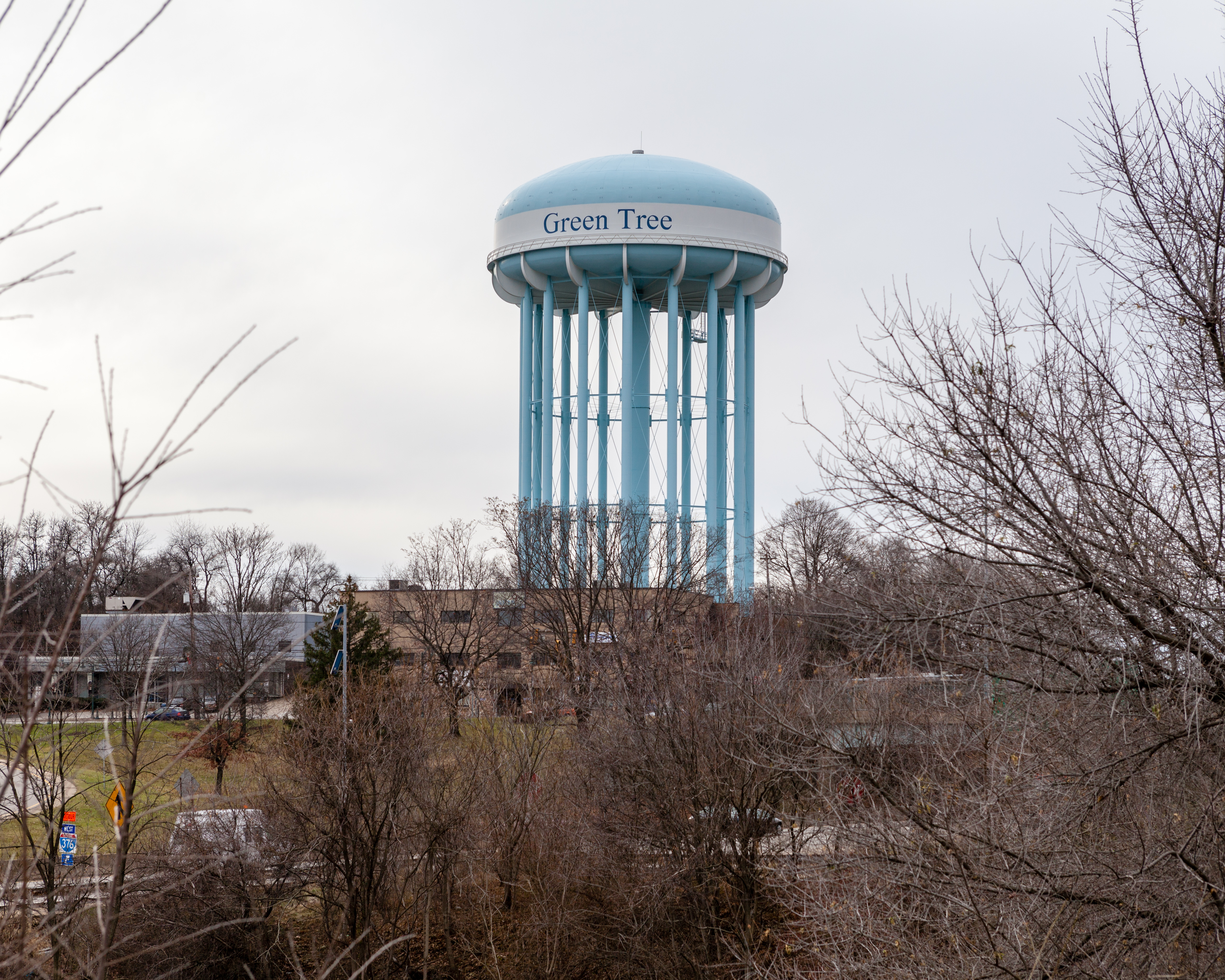 The Green Tree water tower, a local landmark since 1952. Located in the borough of Green Tree, Pennsylvania, the Green Tree water tower has been a local landmark since it was built in 1952. Seen here from the parking lot of Green Tree Park, across the Parkway (I-376) from the tower.